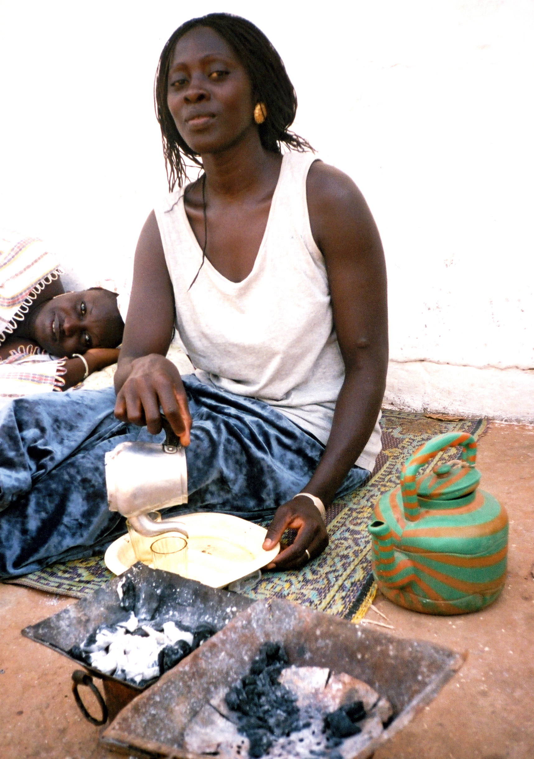 Tea, the Gambian way.